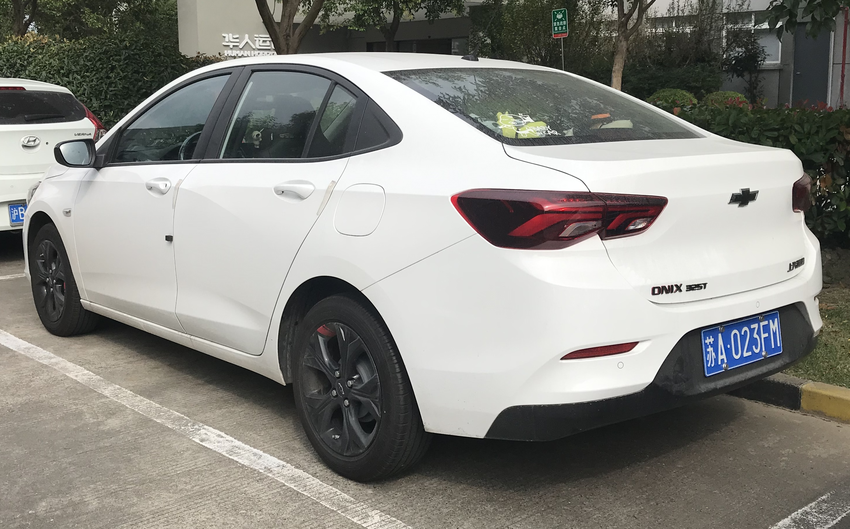 Chevrolet Onix rear